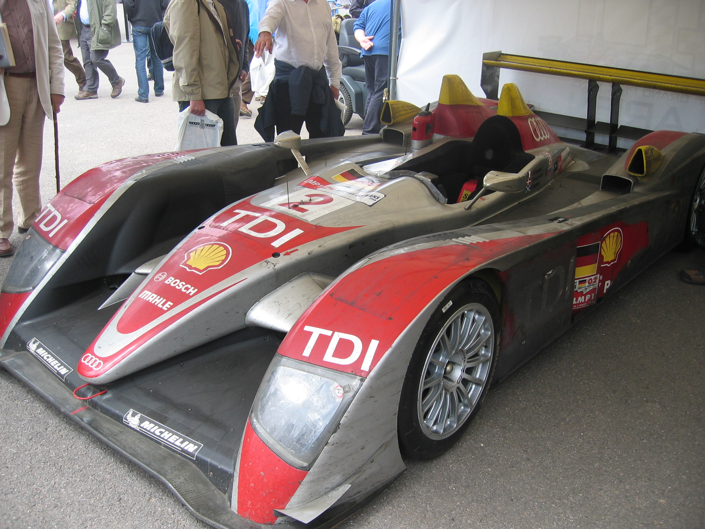 From Goodwood Festival of Speed 2008